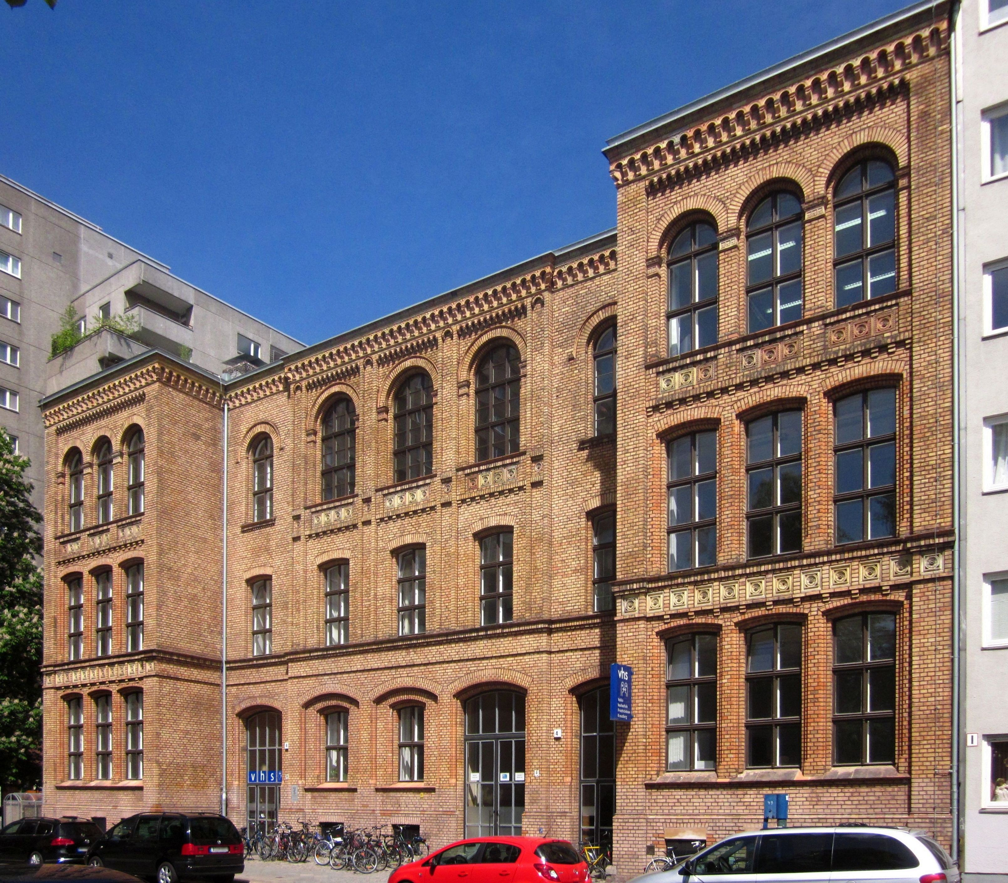 The Volkshochschule (Adult Education Center) Friedrichshain-Kreuzberg at Wassertorstraße No. 4 in Berlin-Kreuzberg. The building was constructed in 1865 as the 28th Municipal School of Berlin to a design by Adolf Gerstenberg. It has been designated as a cultural heritage monument.